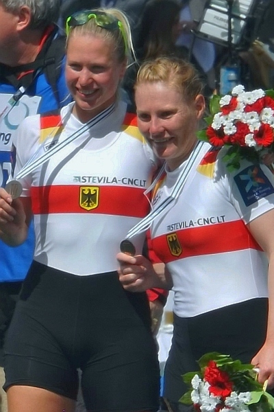 Sight of German athletes Julia Lier and Mareike Adams photographed on the podium with their bronze medal, during the 2015 World Rowing Championships taking place on the lac d'Aiguebelette lake, in Savoie, France.